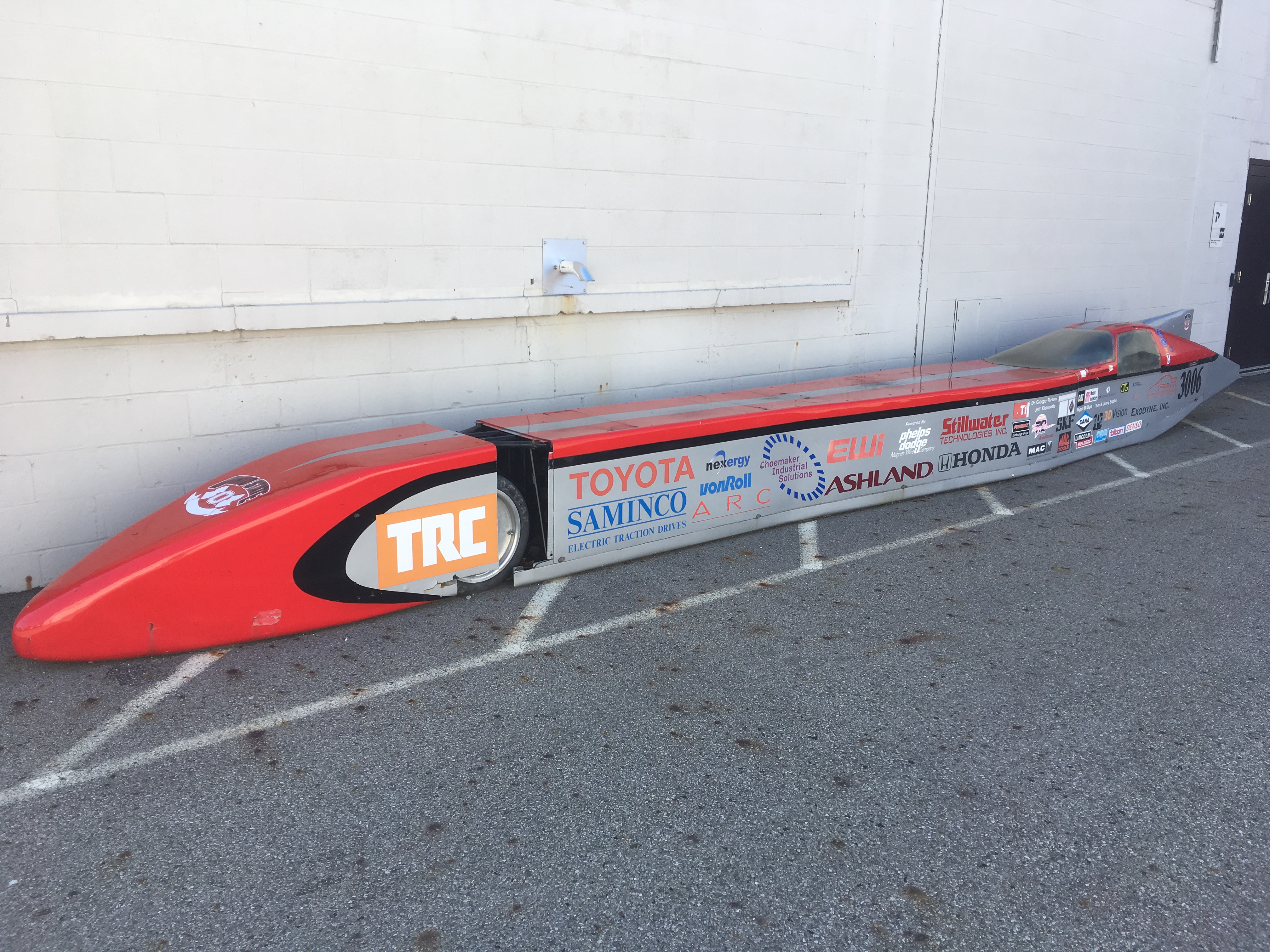 A side view of the Buckeye Bullet 1, at the Center for Automotive Research in February 2018